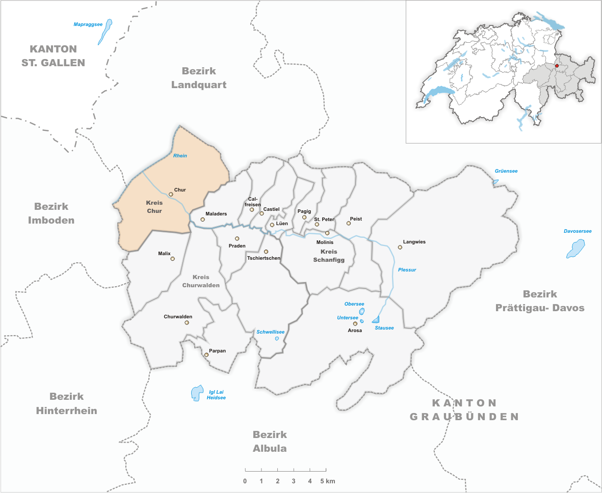 Municipality Chur